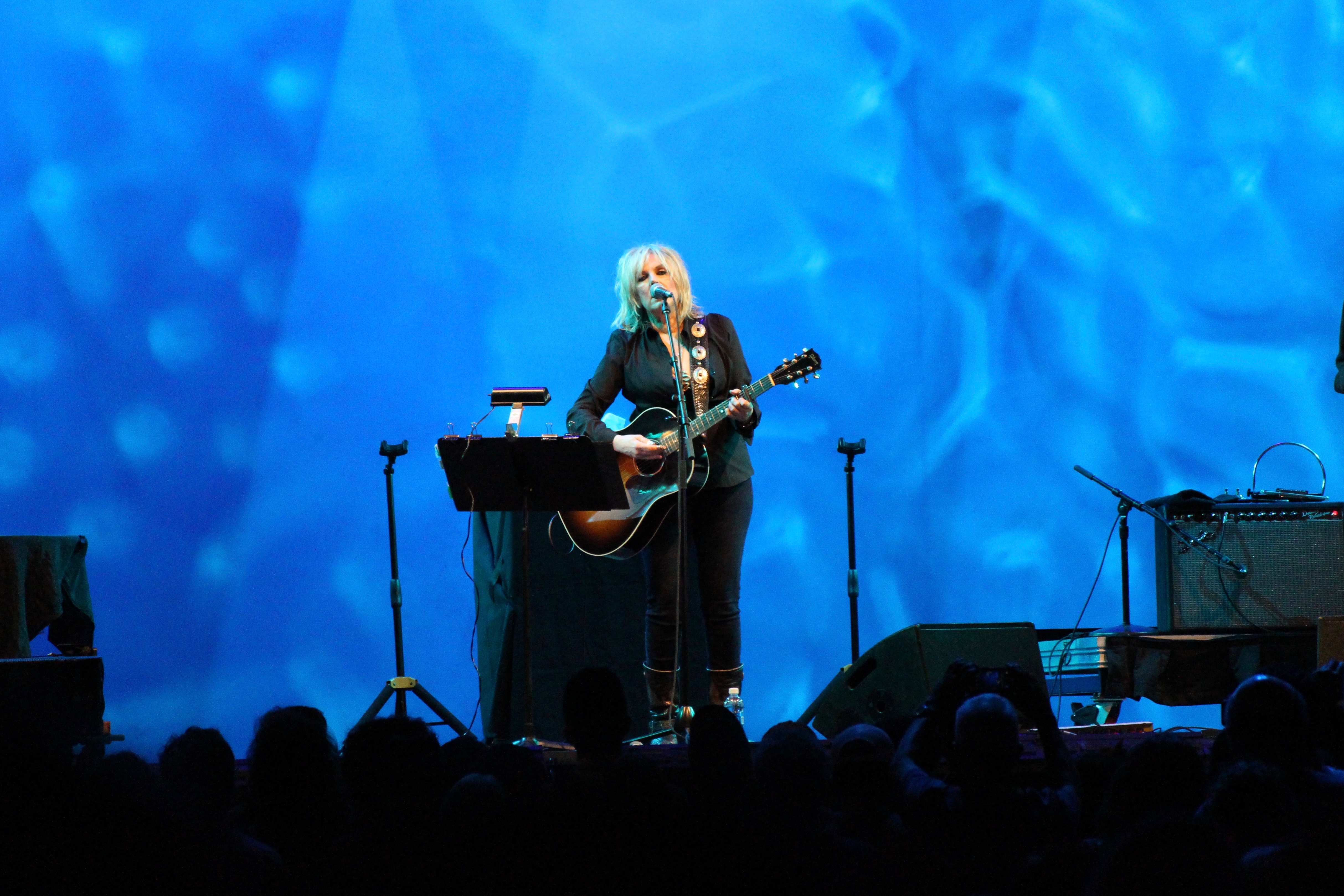 Lucinda Williams at a Lincoln Center Out Of Doors concert in New York City, August 2016